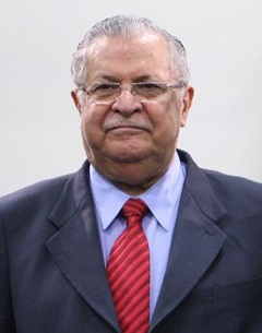 Meetings of Presidents participated in Nowruz with Ali Khamenei - Tehran, Iran (Cropped on Talabani)